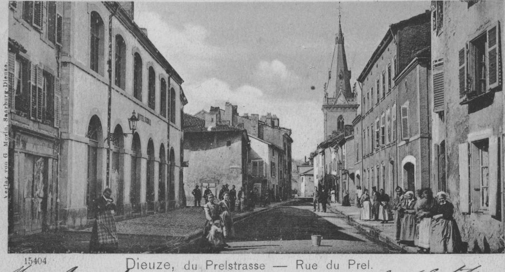 A view of Dieuze in the early 20th century (Dieuze was part of the territory "Alsace-Lorraine" then annexed to Germany). "Rue du Prel" before bombing of the 2nd World War.